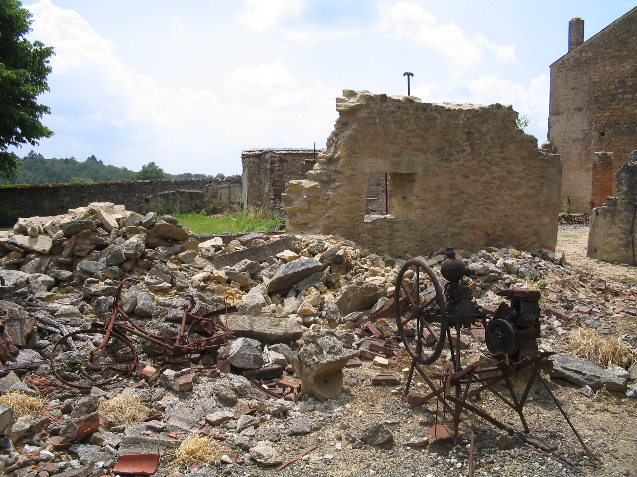 Wrecked hardware - a bicycle and a sewing machine etc. in Oradour-sur Glane. This is a photograph which I took during a visit to the French village Oradour-sur-Glane on June 11 2004, exactly 60 years after its destruction by the German army during World War II.